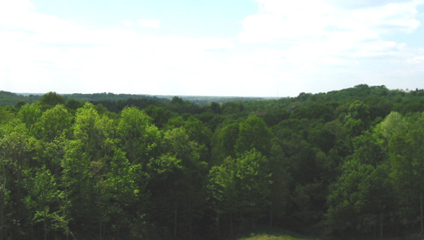 Appalachian Plateau near Athens in southeast Ohio. Plateau characterized by low, rolling hills and slow moving rivers until glaciers disturbed regional streams. The resulting changes caused streams to erode (cut) downward and thereby increase valley depths. As a result, plateau is much rougher now than before the glaciers. Streams also became steeper and many old streams were abandoned in favor of new streams flowing in a different direction.